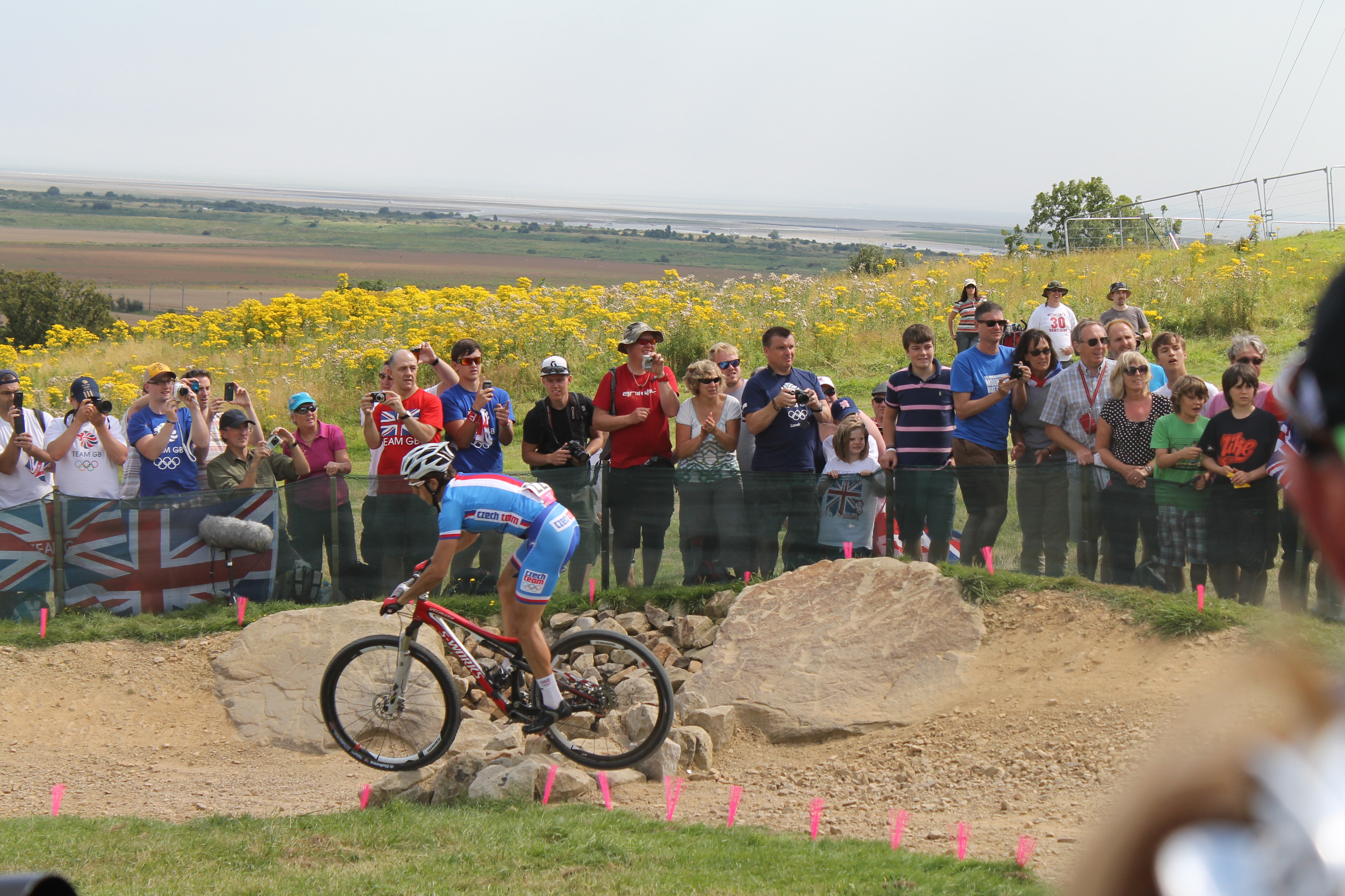 Cycling at the 2012 Summer Olympics – Men's cross-country Jan Škarnitzl (22) (CZE) IMG_3943